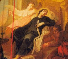 William of Paris